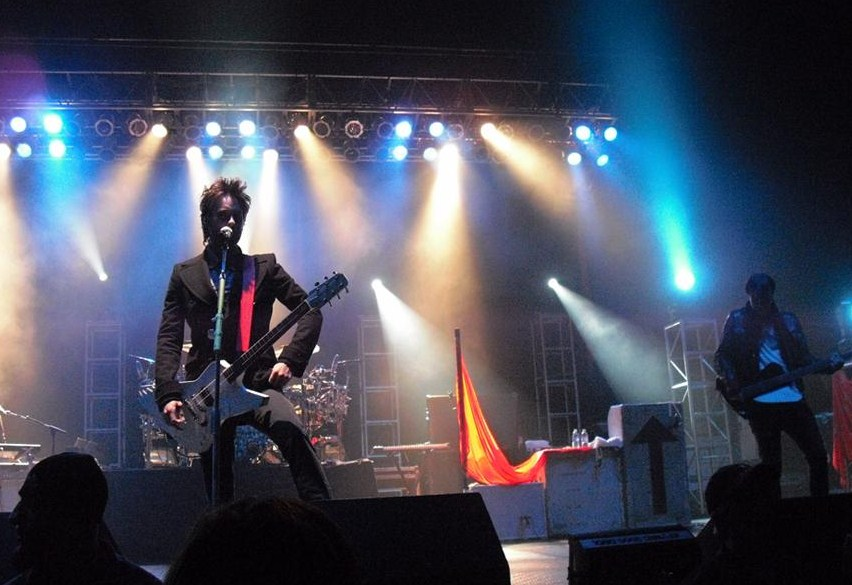 30 Seconds to Mars performing in Houston, Texas on February 17, 2010